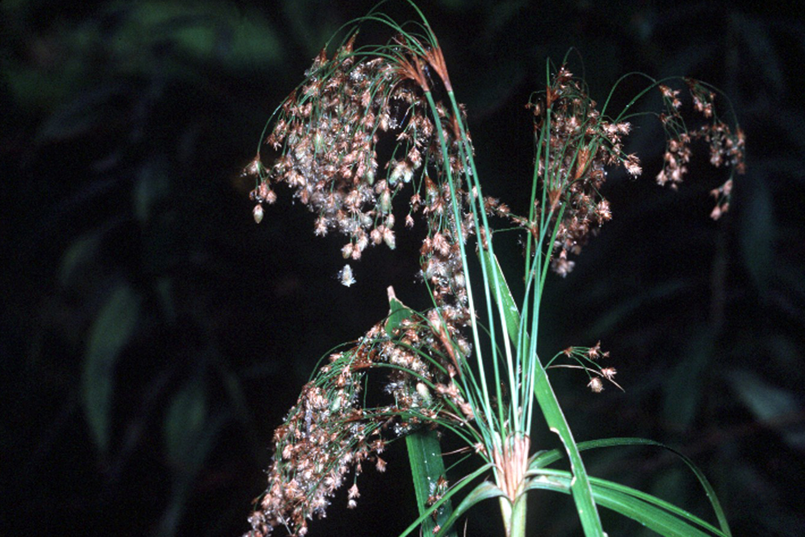 Scirpus cyperinus (L.) Kunth - woolgrass